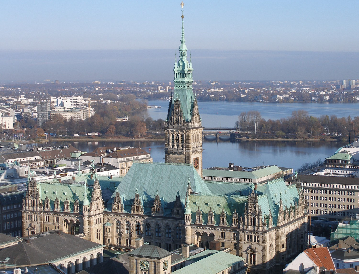 View from the Nikolaikirche to the backside of the townhall from Hamburg. In the background Binnen- and Außenalster